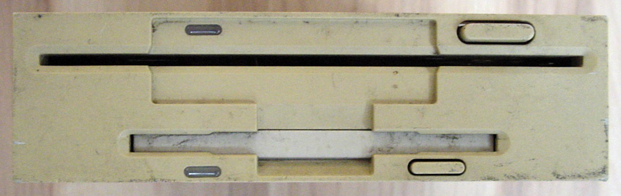 1.2 MB 2.88 MB floppy disk drive